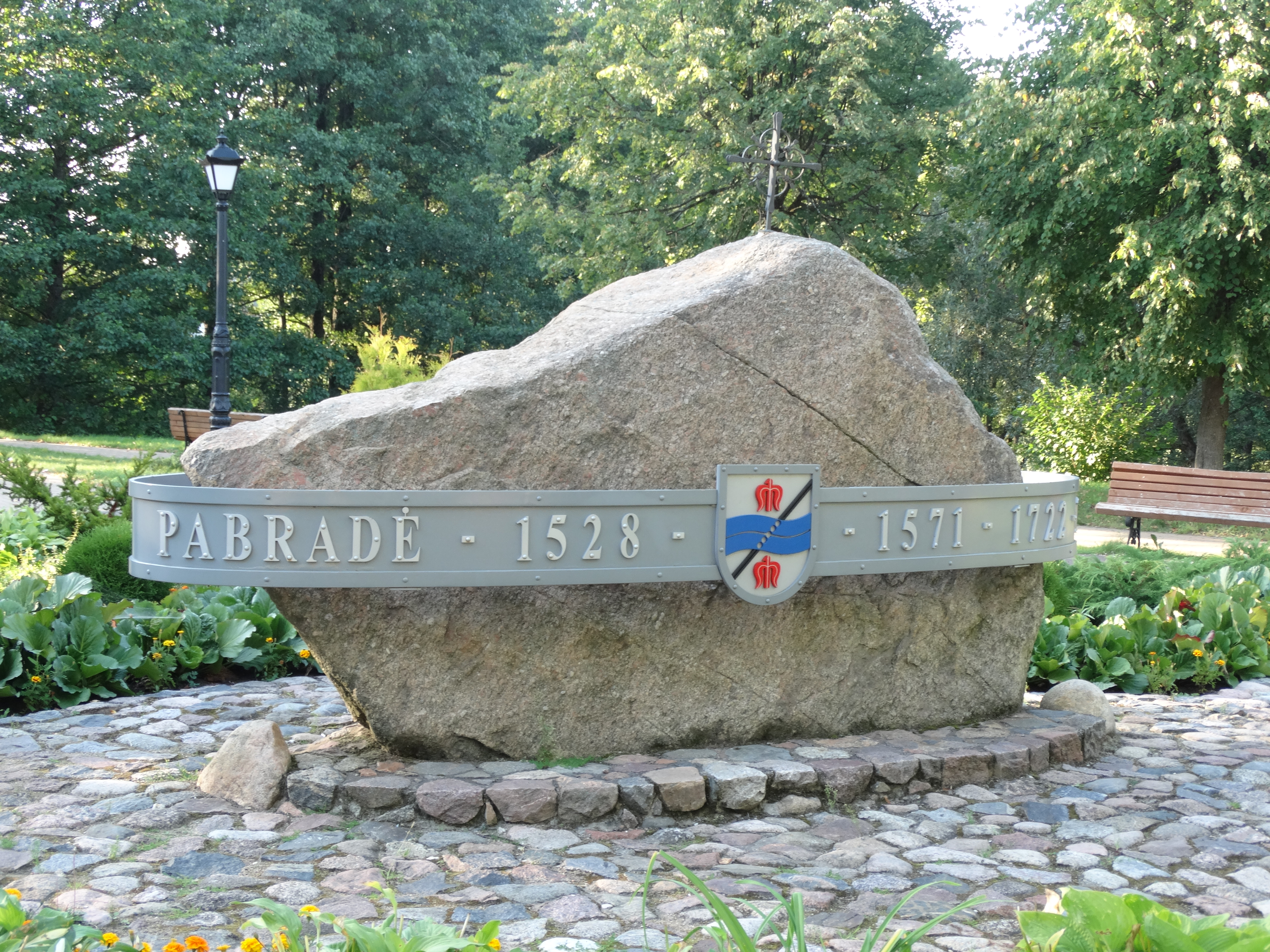 Stone and coats of arms, Pabradė, Švenčionys District, Lithuania